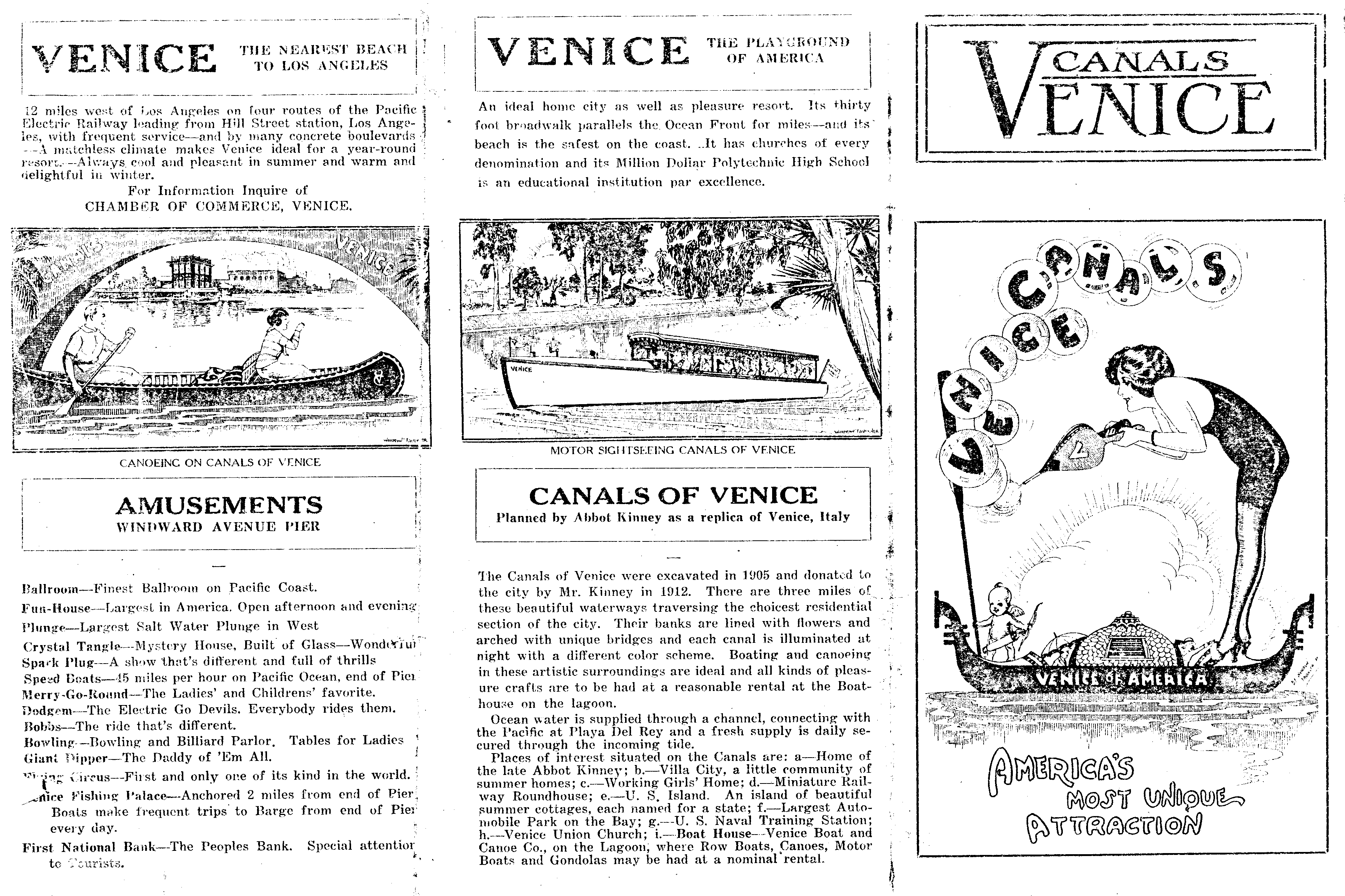 Promotional flyer for Venice of America in Los Angeles, California.